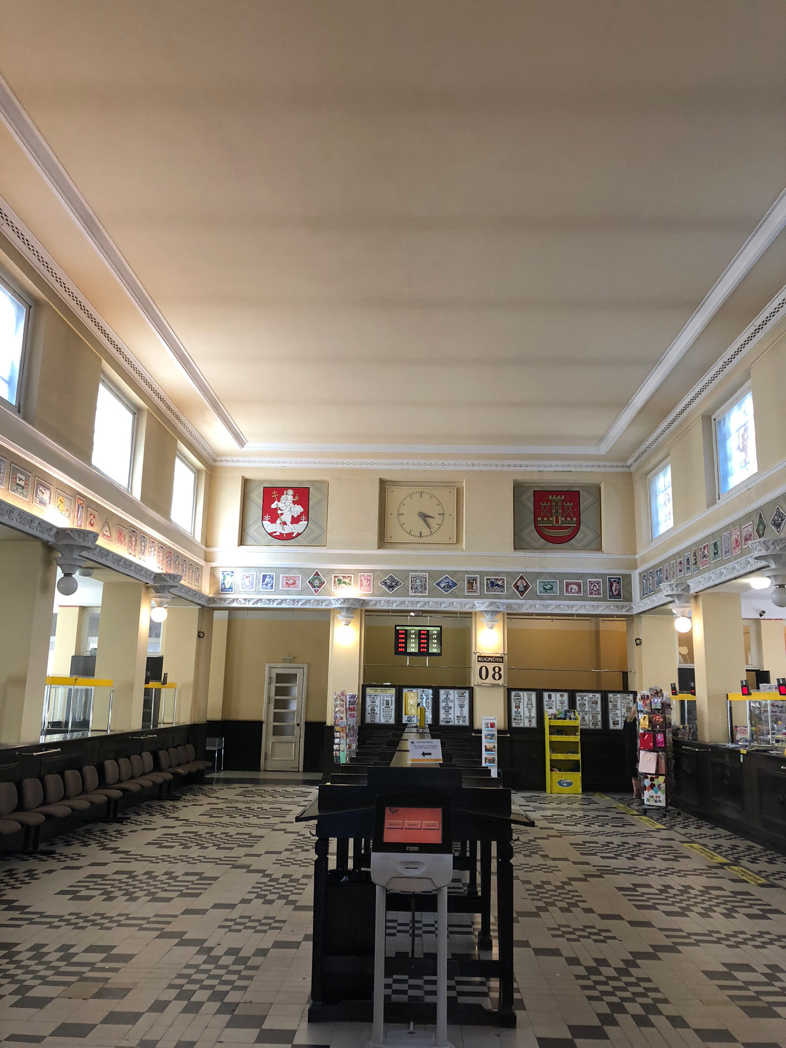 Central Post of Kaunas building interior. Central wall has depictions of two Lithuanian cities coats of arms: Vilnius and Klaipėda.